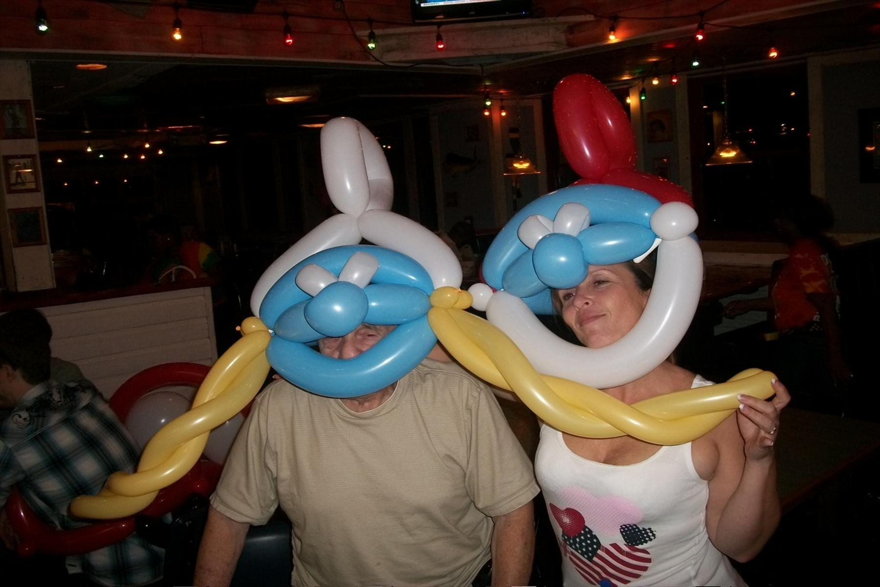 Balloon parody hats of Poppa Smurf and Smurfette.